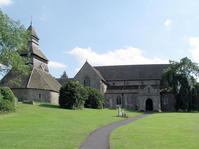 Pembridge Church and Belfry. from the S